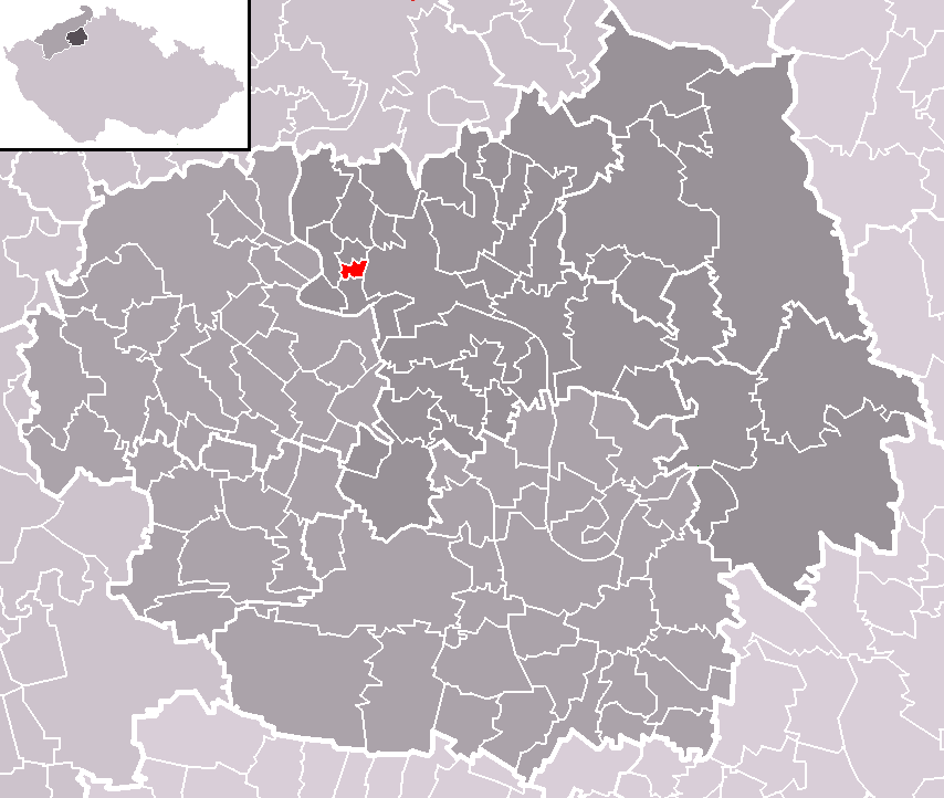 Location of Michalovice municipality within Litoměřice District and administrative area of Litoměřice as a Municipality with Extended Competence.